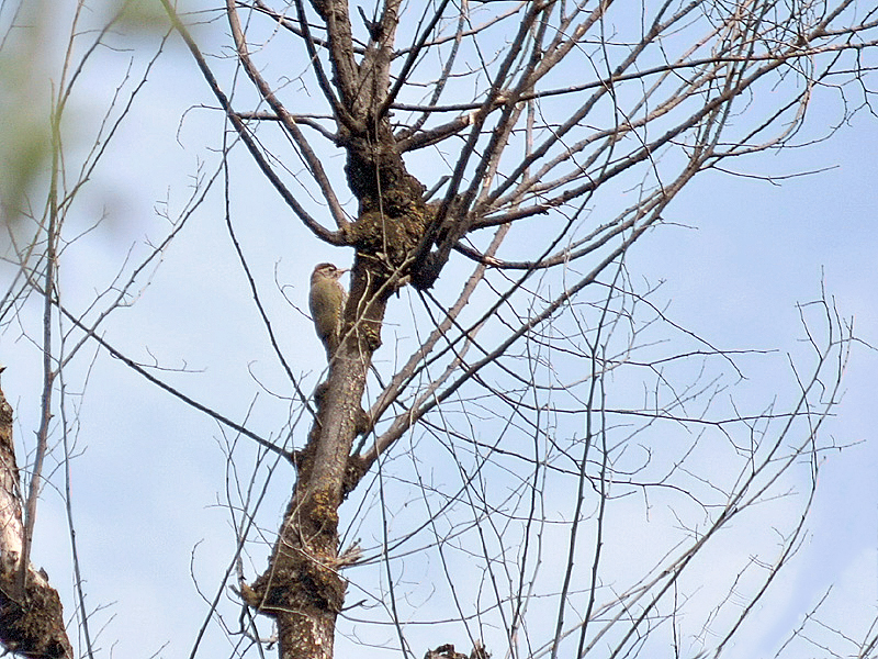 Scaly-bellied Woodpecker, Picus squamatus in Kullu District of Himachal Pradesh, India.